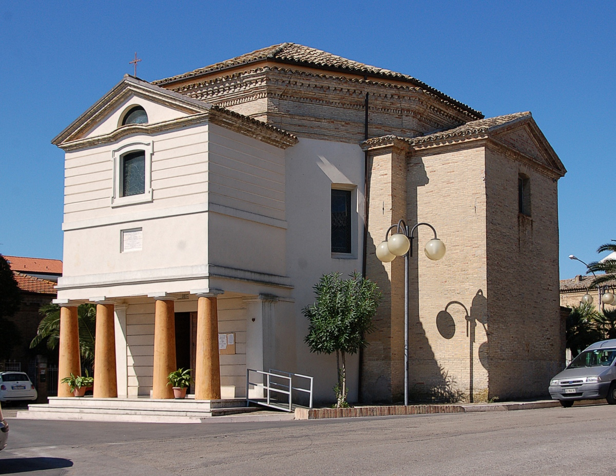 Vasto